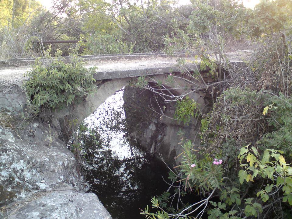 stone bridge in Mashta Aazar village in Syria